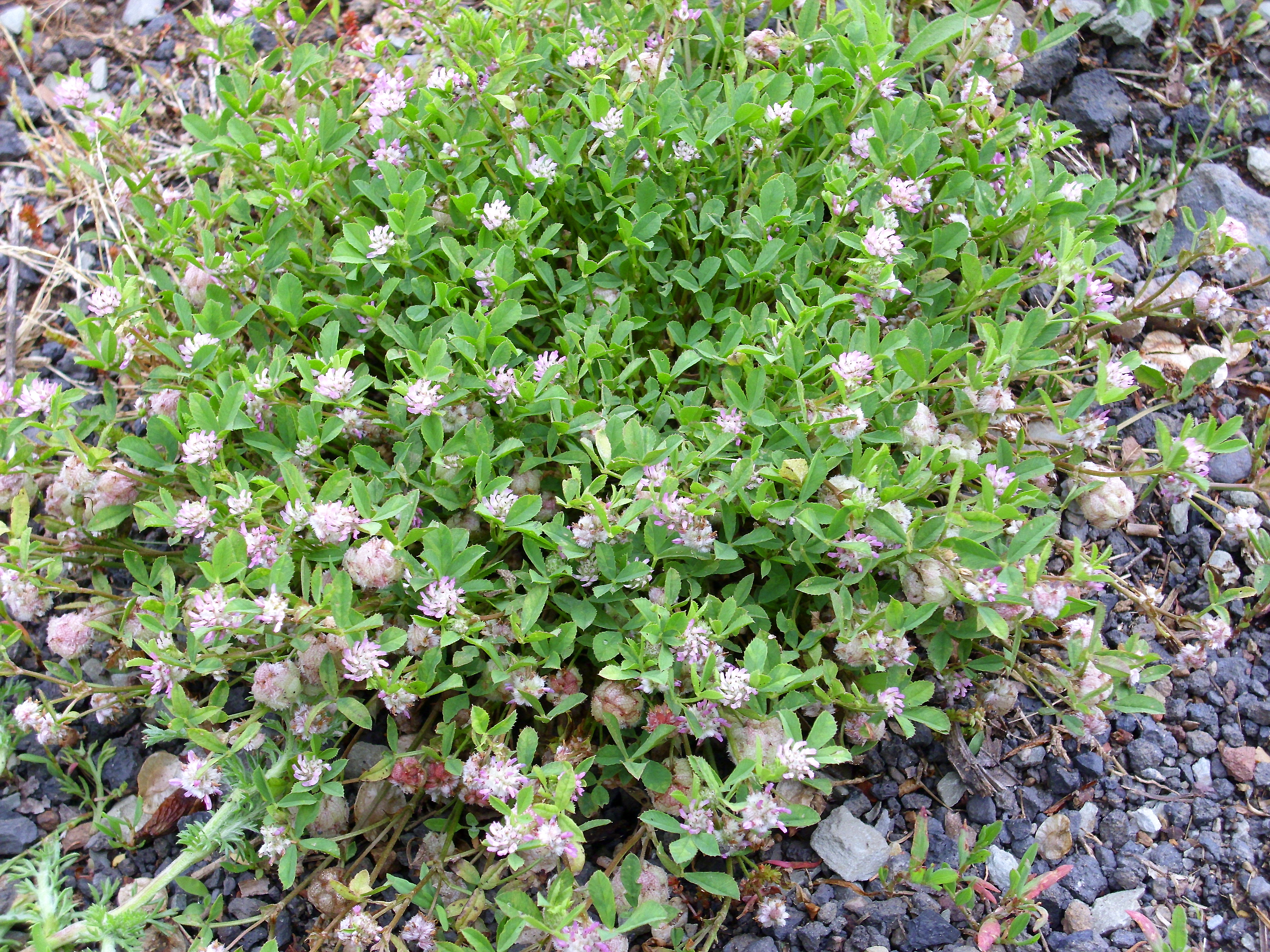 Trifolium fragiferum habit, Dehesa Boyal de Puertollano, Spain